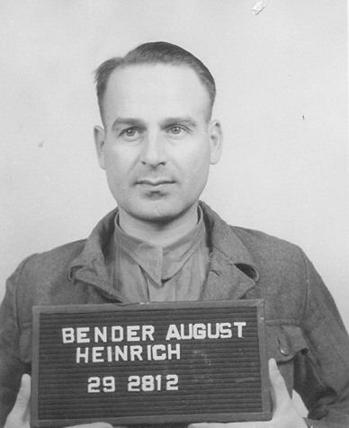 August Heinrich Bender was SS-Sturmbannführer and a Nazi physician in the concentration camp of Buchenwald. In the Buchenwald Camp Trial (part of the Dachau Trials) he was sentenced to 10 years of imprisonment (later modified to 3 years)